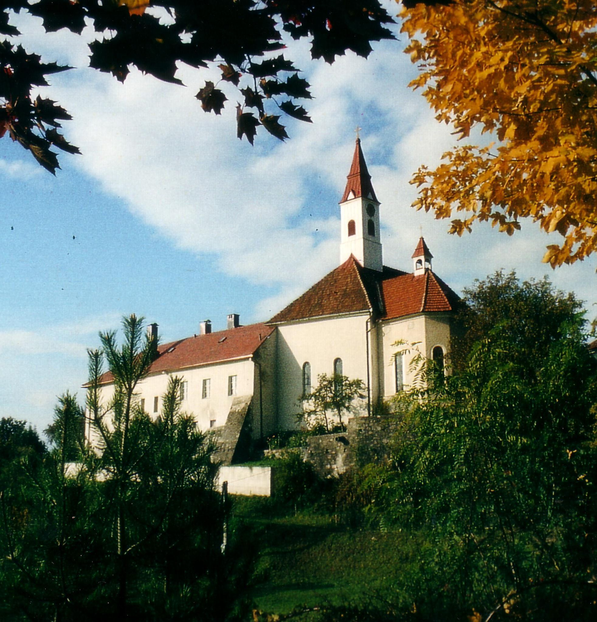 Schloss Götzendorf